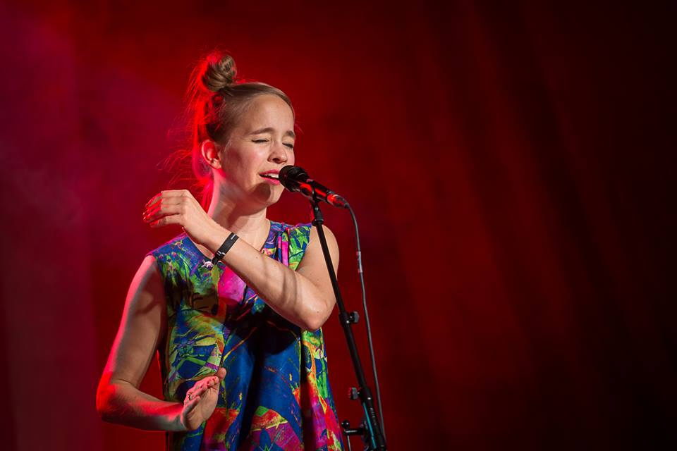 Harcsa Veronika, JazzKaar, 2016